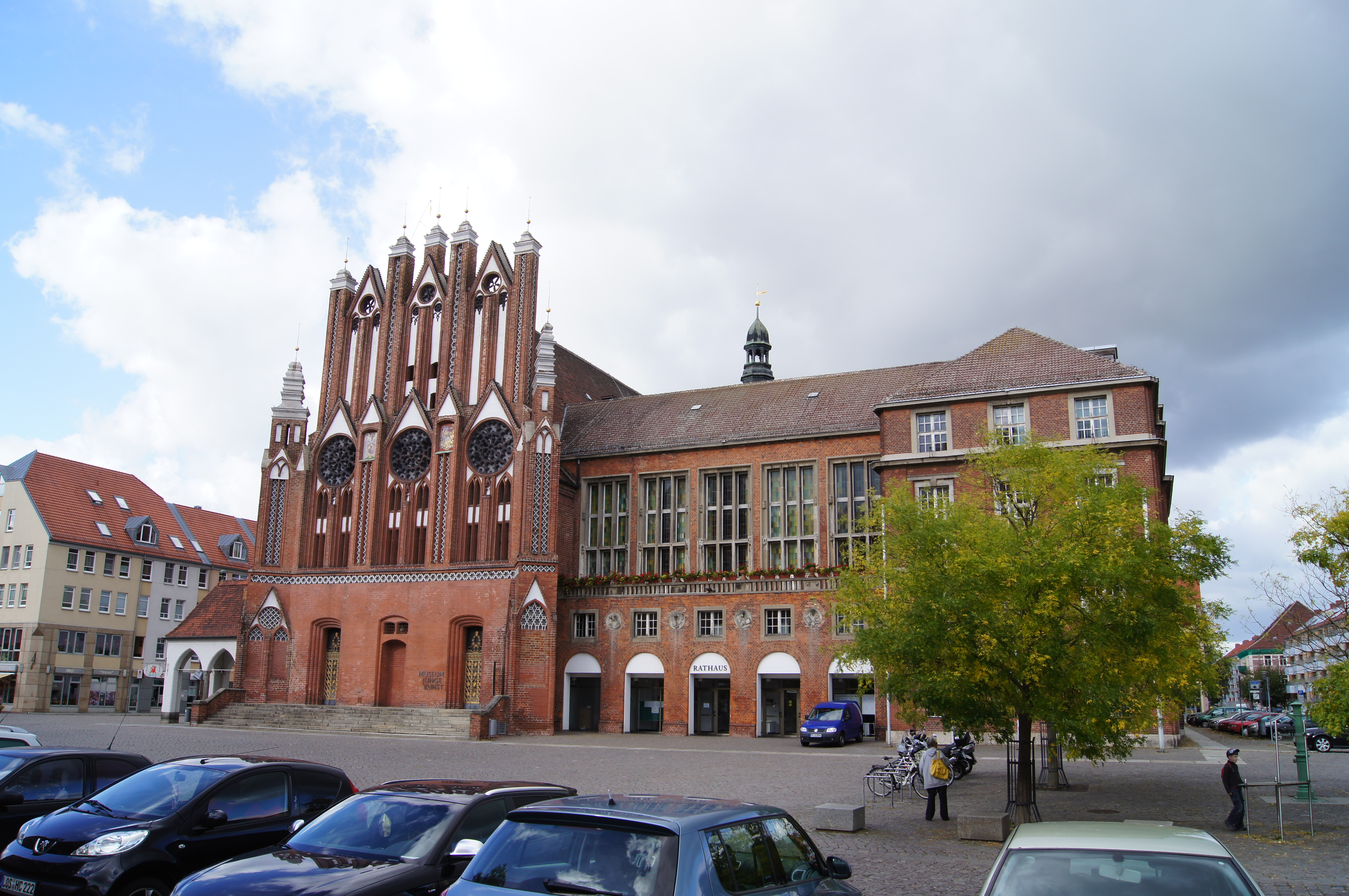 Town hall of the city of Frankfurt (Oder), Brandenburg, Germany